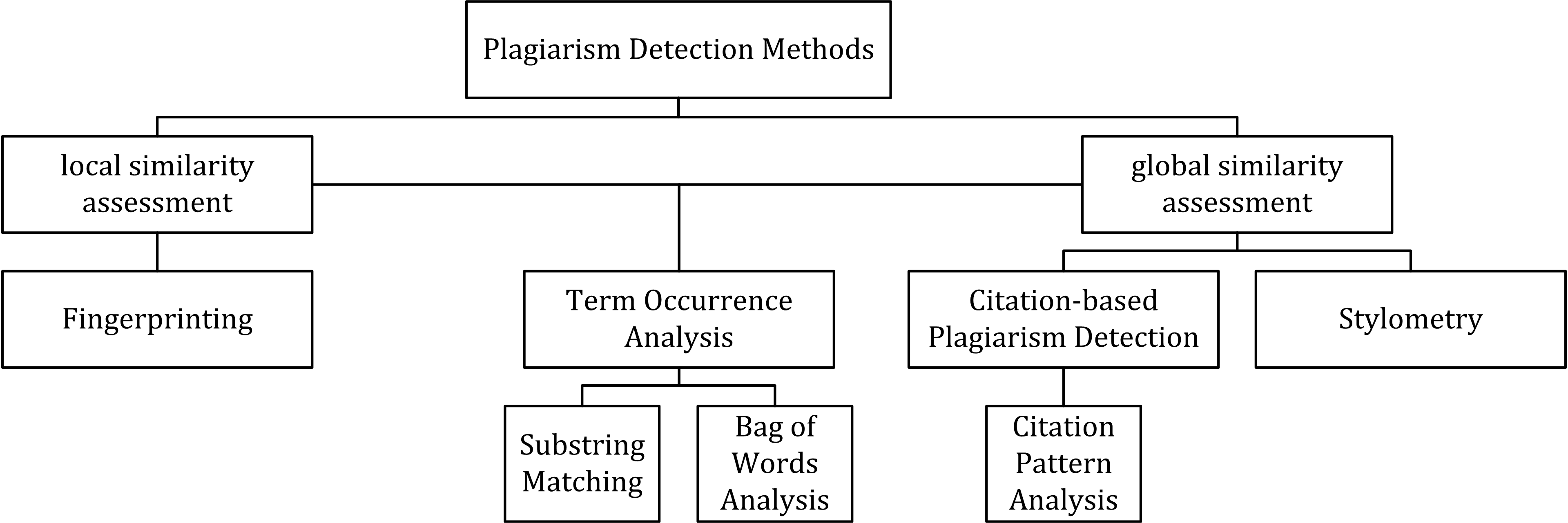 This figure summarizes the main approaches used by computer-assisted plagiarism detection systems.